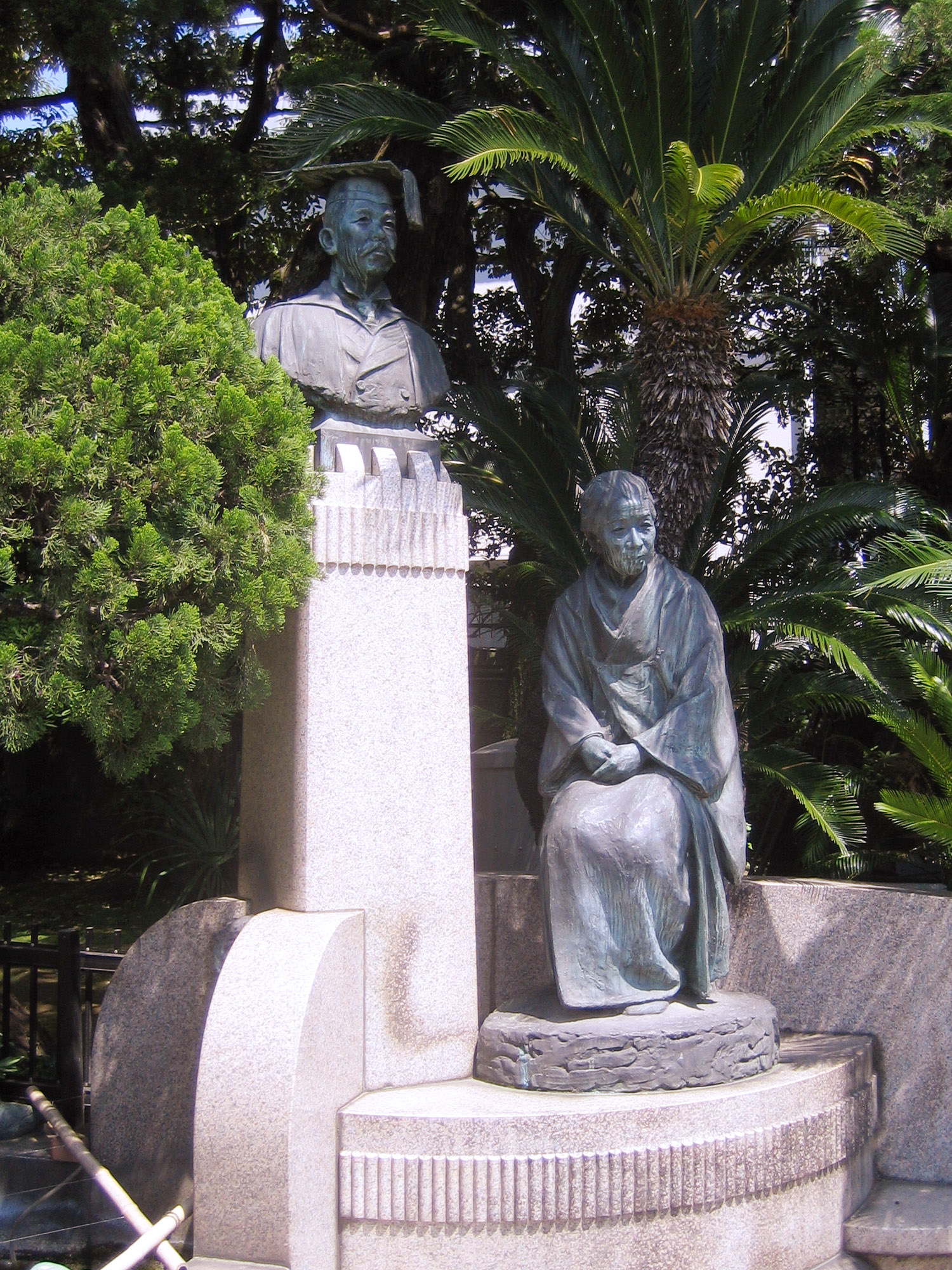 Statues of Kazuo Hatoyama (鳩山和夫) and his wife Haruko Hatoyama (鳩山春子), at Hatoyama Hall (鳩山会館)